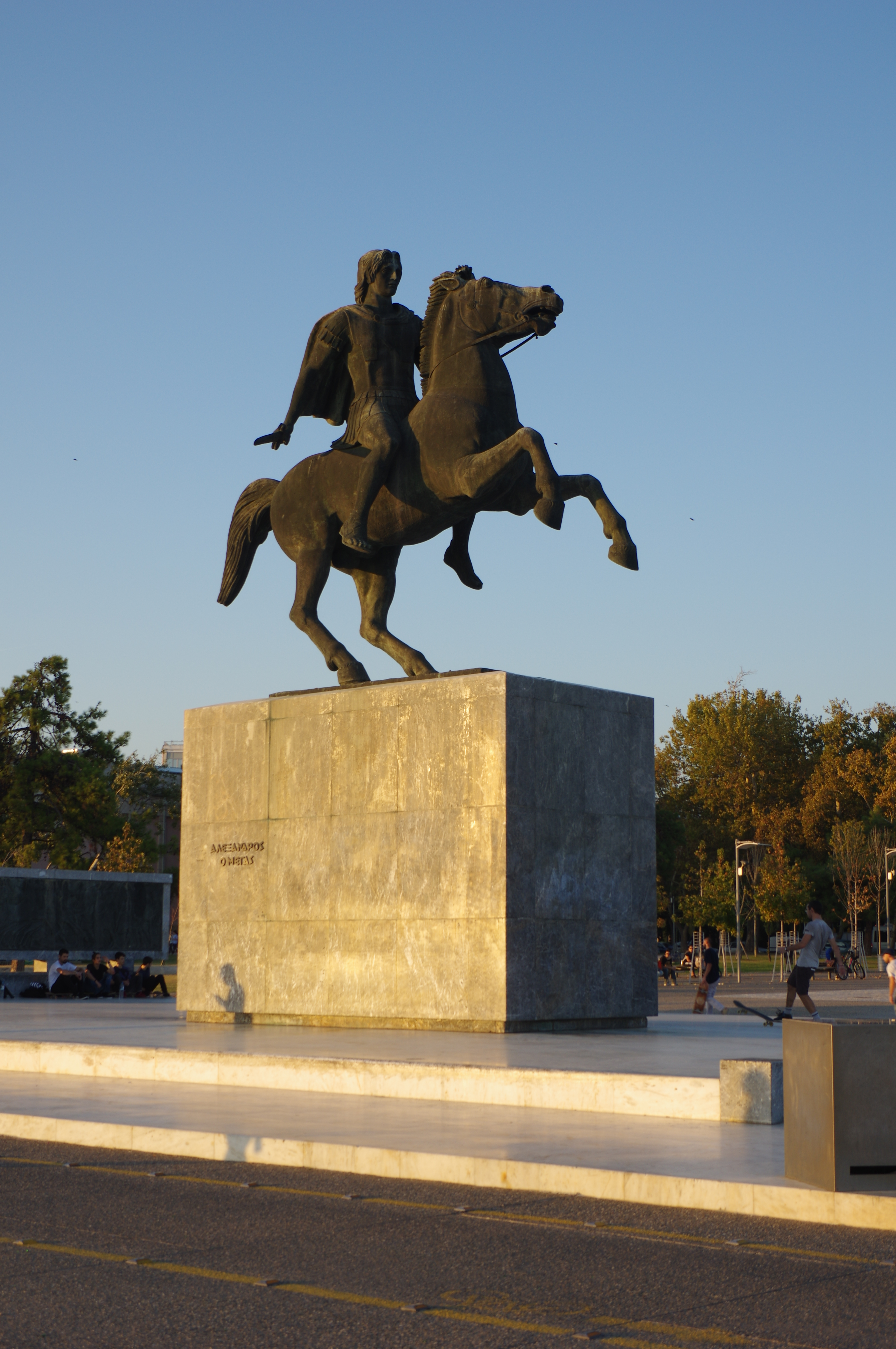 Thessaloniki, Monument of Alexander the great